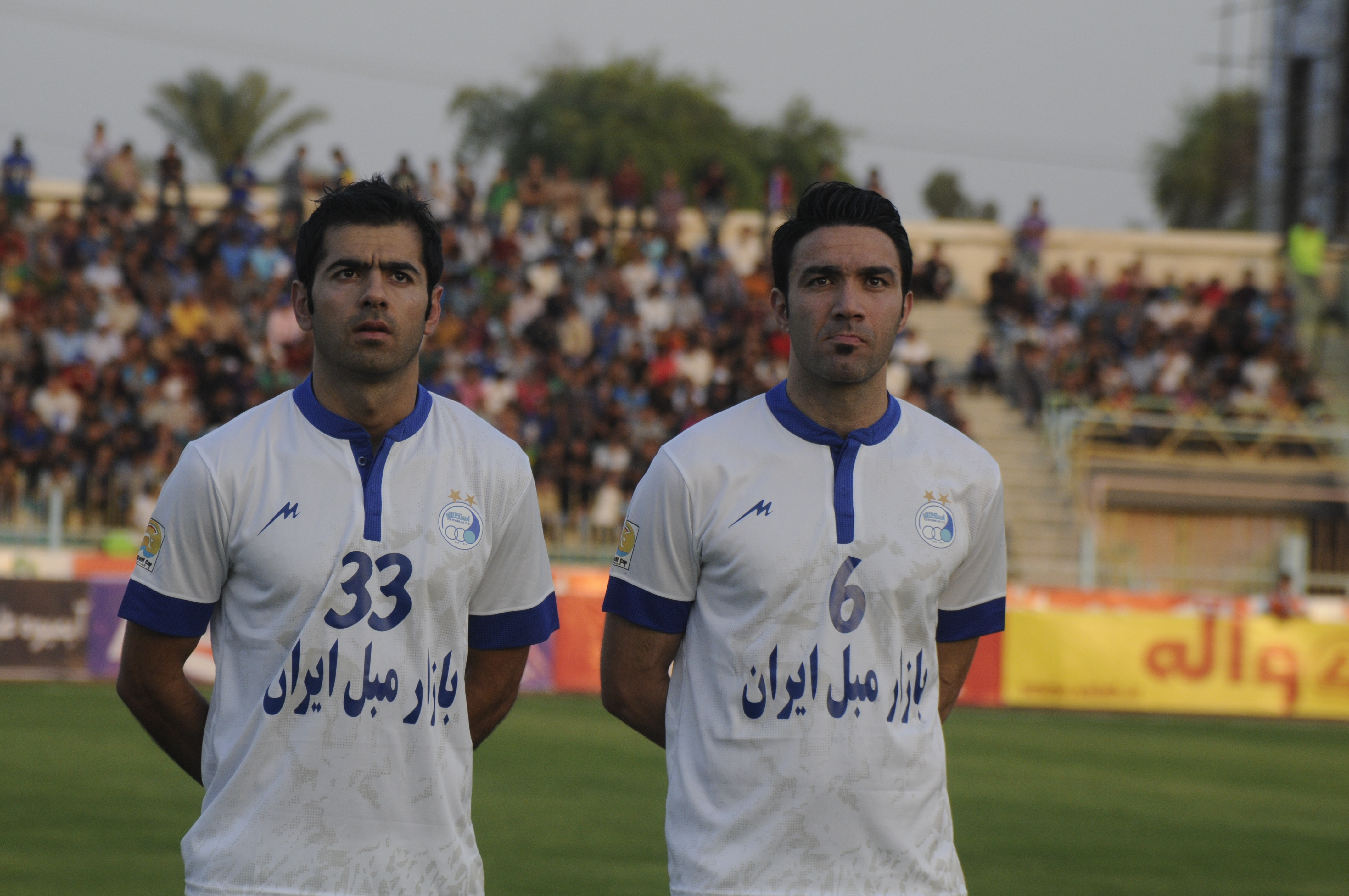 Pjeman Montazari Javad Nekounam